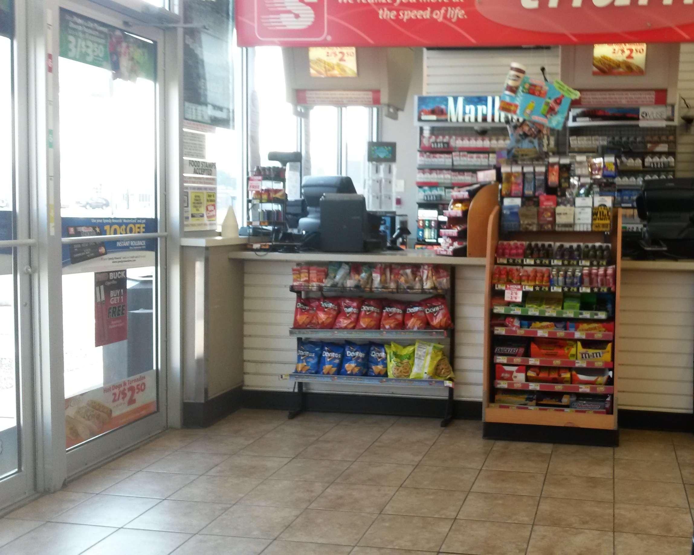 Taken at Speedway 7575 in Hobart, Indiana.